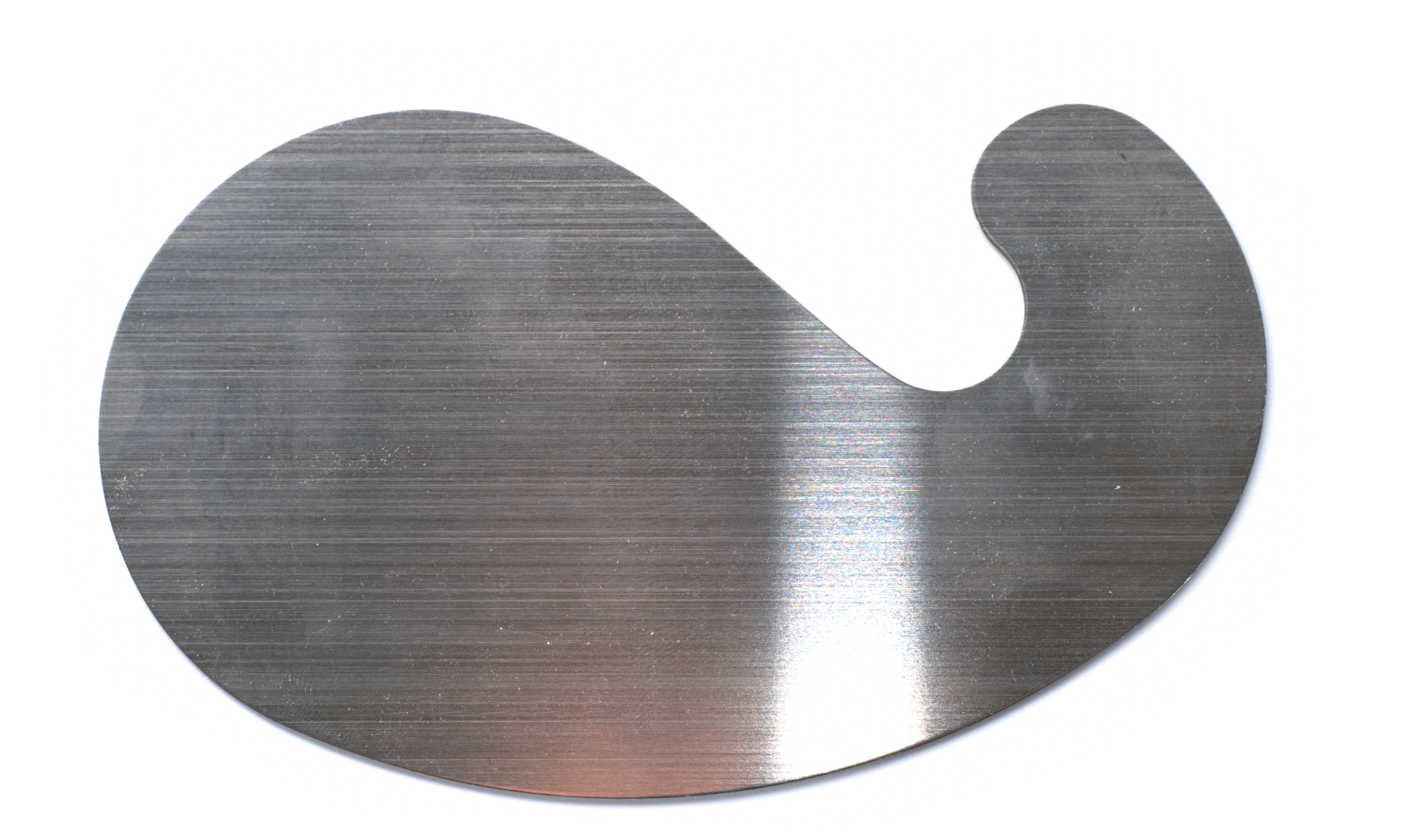 Gooseneck Card Scraper